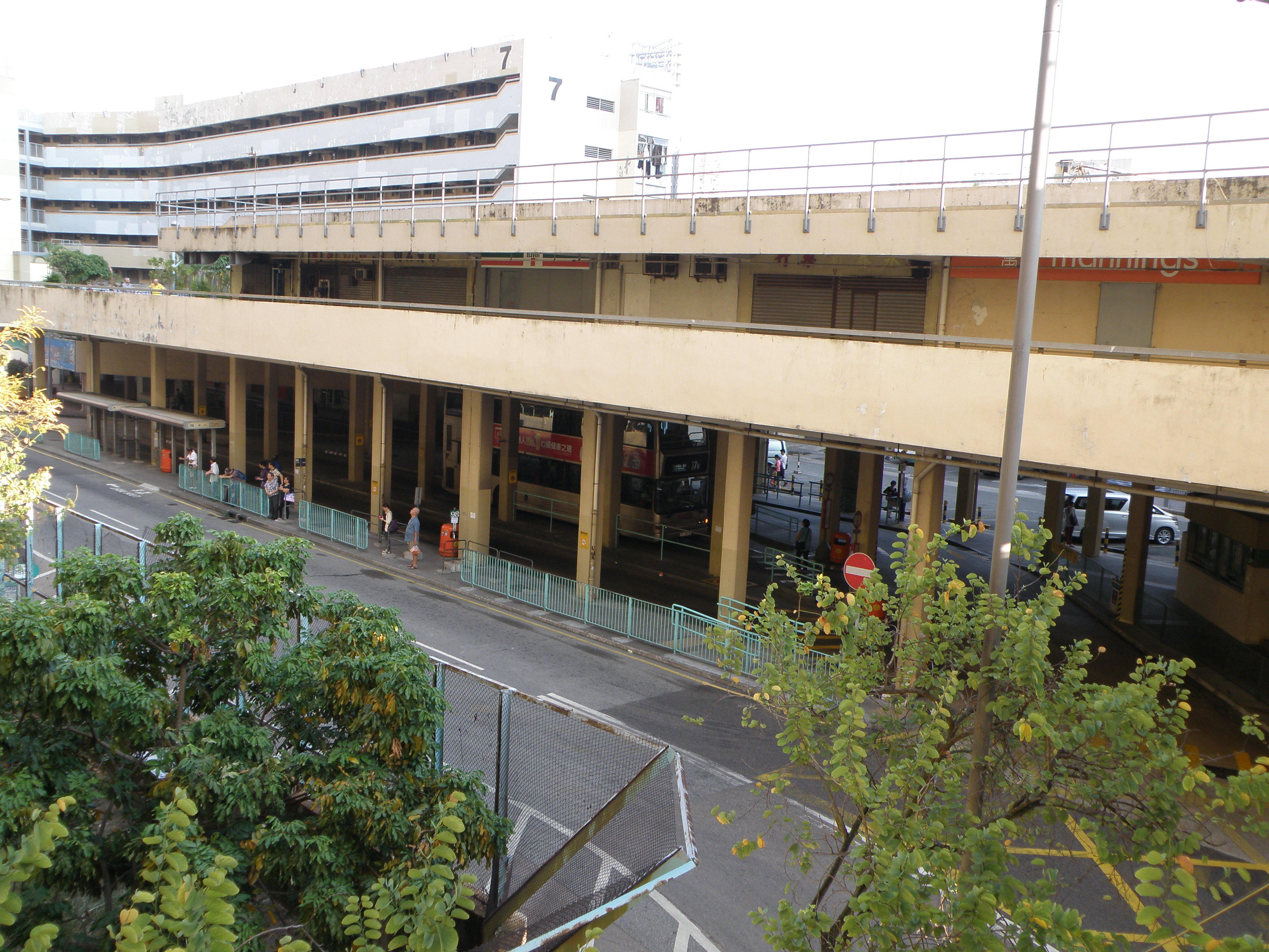 Kwai Shing (Central) Bus Terminal in Kwai Chung, Hong Kong.